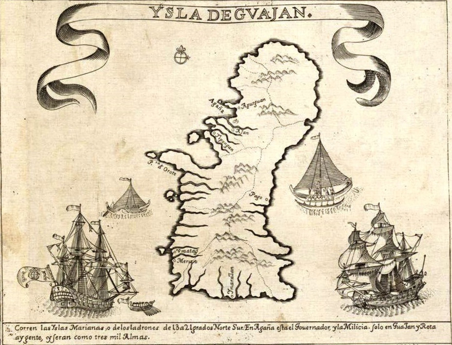 The island of Guajan (Guam), detail from Carta Hydrographica y Chorographica de las Islas Filipinas (1734). Caption in Spanish. Corren las Islas Marianas, o de los ladrones de 13 a 21 grados Norte Sur. En Agaña esta el Gouernador, y la Milicia. Salo en Guajan y Rota ay gente, y seran como tres mil Almas. "The Mariana Islands, or the "Island of Thieves" 13 to 21 degrees North South. The Governor and Militia are in Agaña. Three thousand souls live in Guam and Rota."